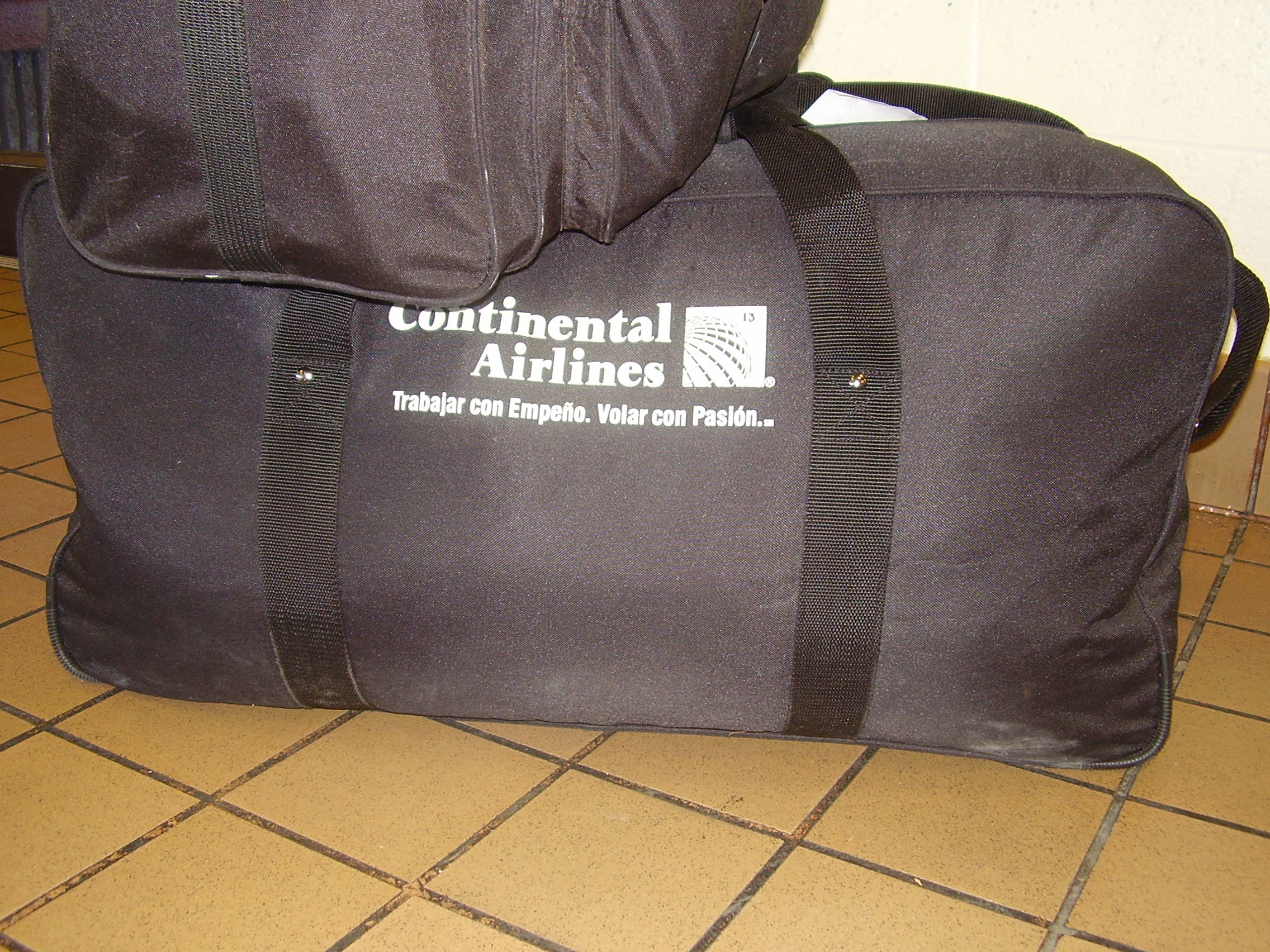 Continental Airlines duffel bag, with the Spanish slogan (" Trabajar con empeño. Volar con pasión," English version of the slogan: "Work Hard. Fly Right.")